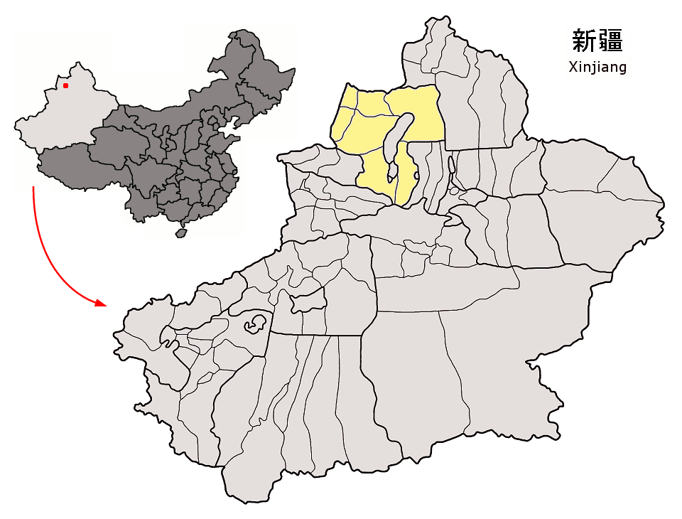 Location of Tacheng Prefecture (yellow) within Xinjiang autonomous region of China Map drawn in september 2007 using various sources, mainly : Xinjiang Uygur autonomous region administrative regions GIS data: 1:1M, County level, 1990 Xinjiang Counties map from